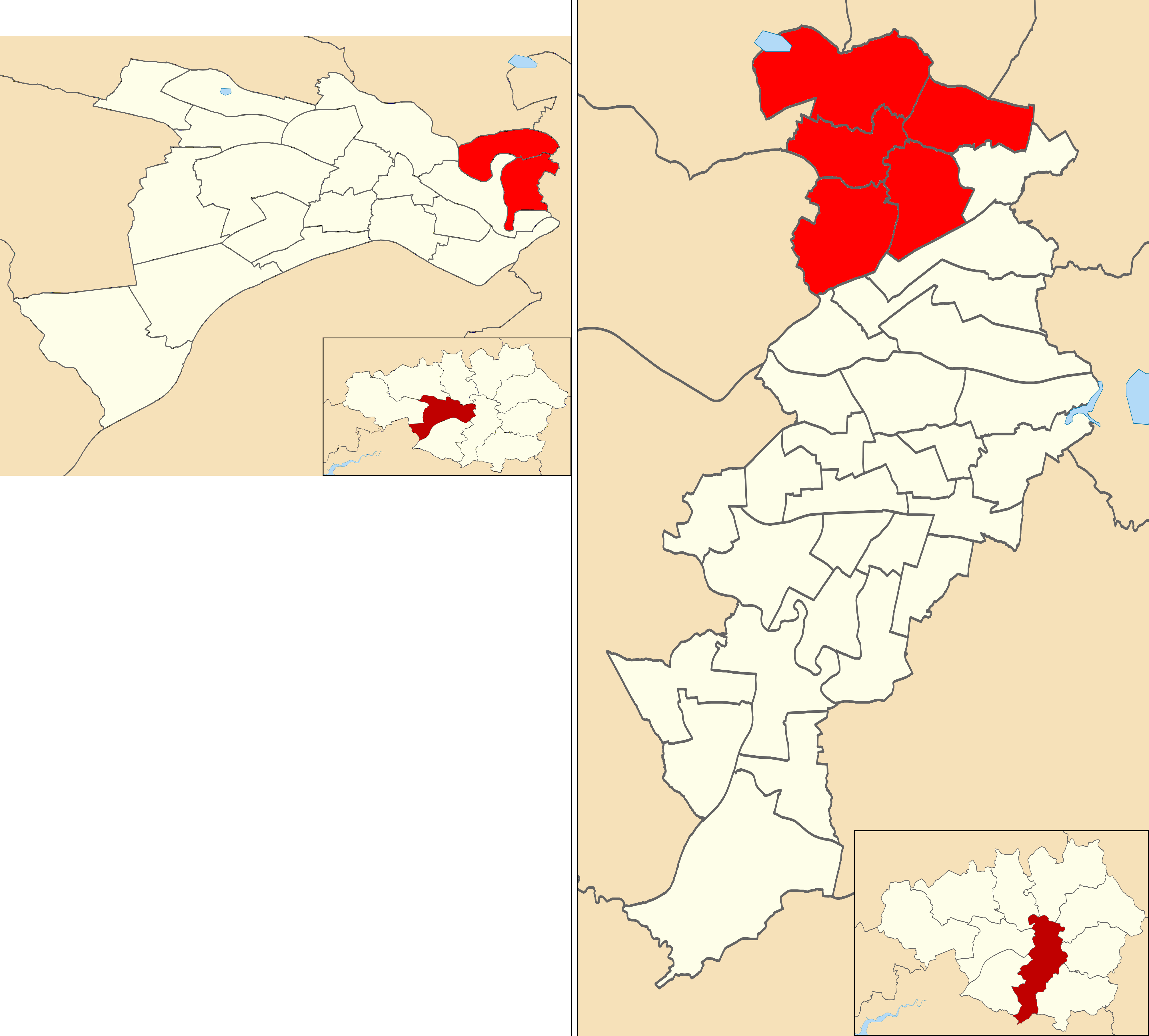 Map showing location of Blackley and Broughton (UK Parliament constituency) with wards in both Salford City Council and Manchester City Council.